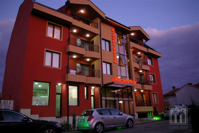 SPA Hotel Markoni Pavel banya, Bulgaria